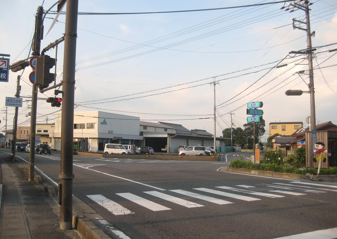 Shiga prefectural road 13 and 52 in Tatebe-hiyoshi, Higashiomi, Shiga